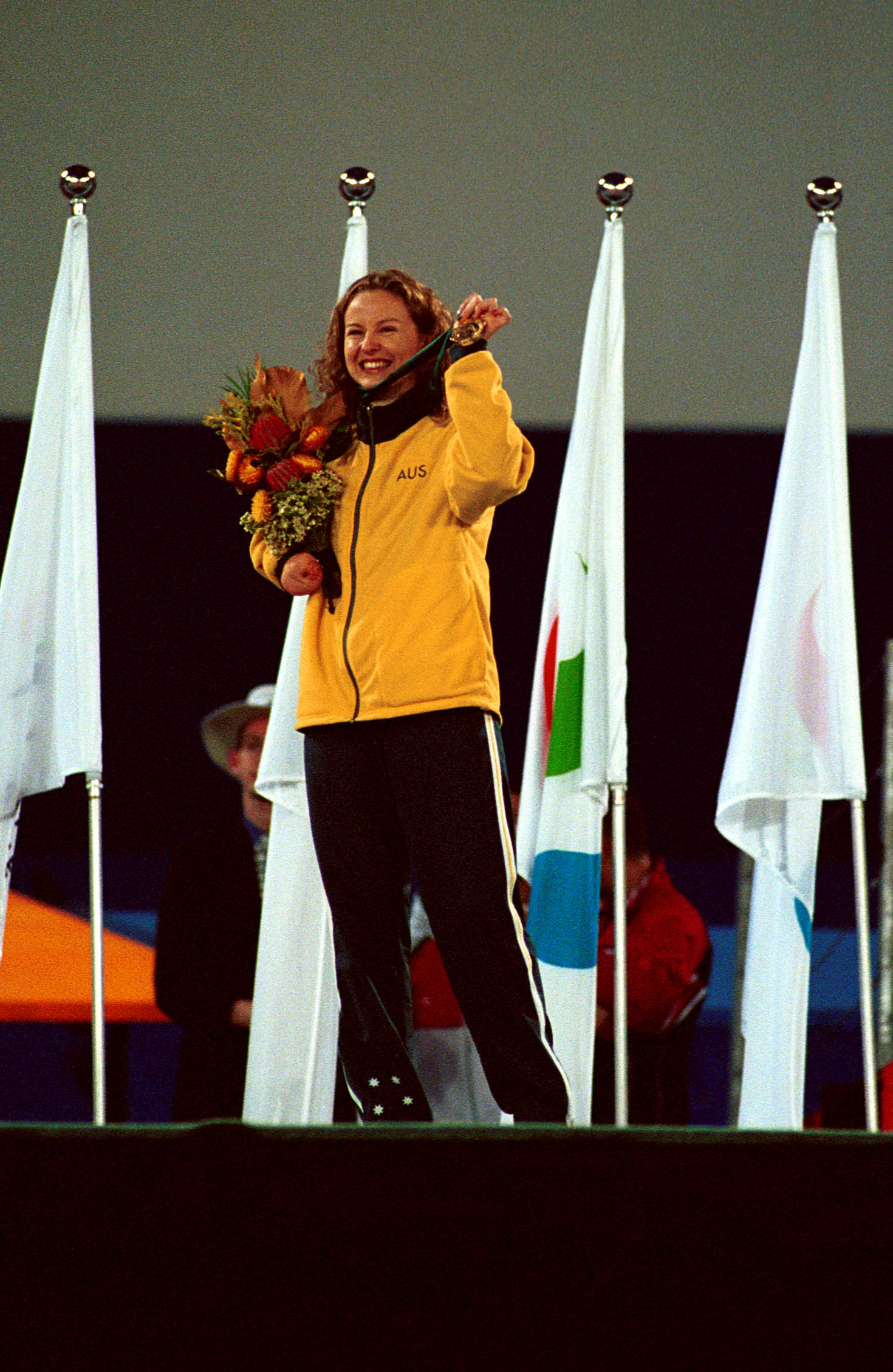 Australian track athlete Amy Winters celebrates her gold medal win on the medal podium at the 2000 Sydney Paralympic Games, Day 08. This was either the 100 m T46 or 200 m T46 event (Winters won gold in both).